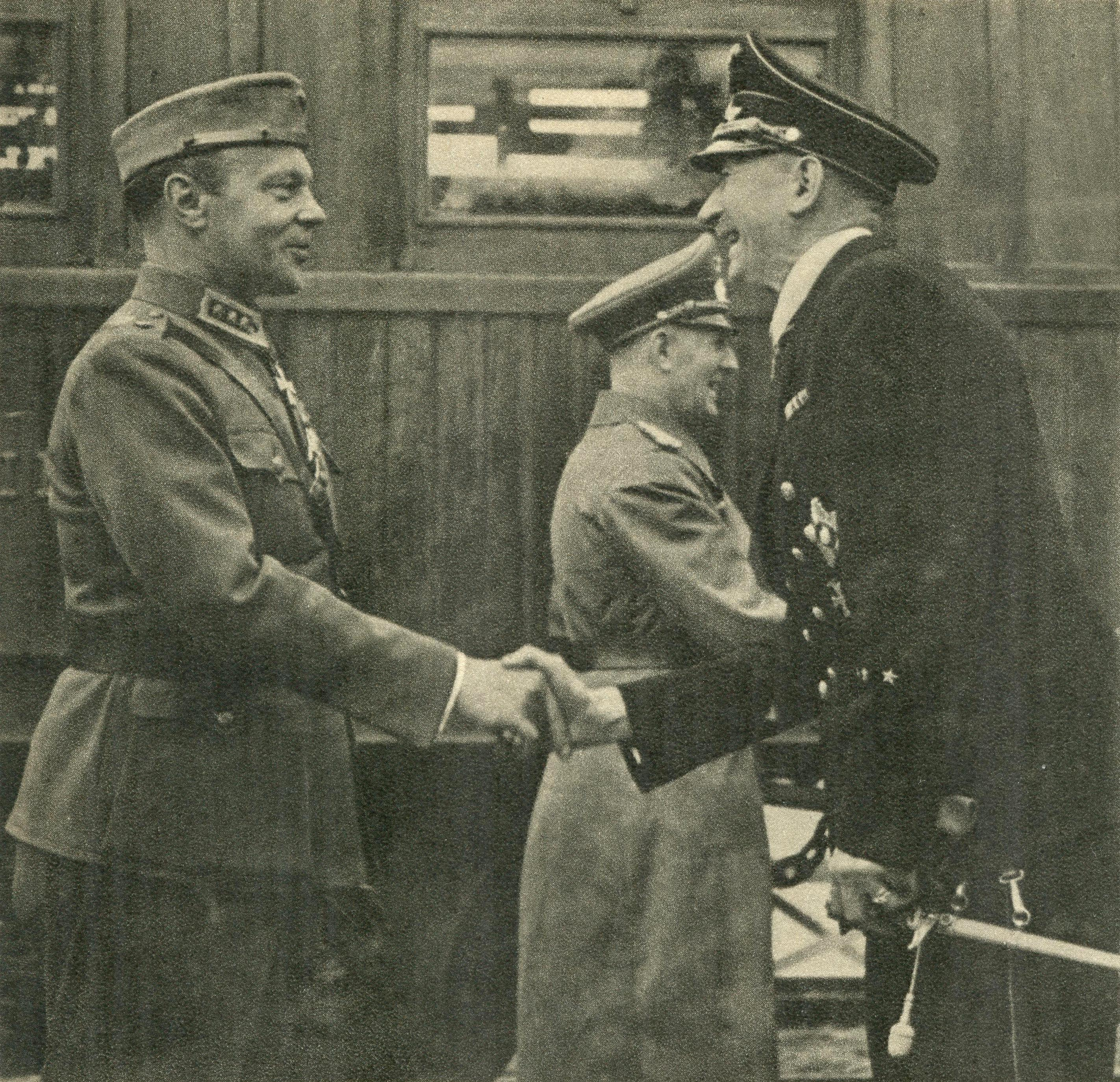 General Heinrichs welcomes Germany's ambassador to Helsinki, minister von Blücher.